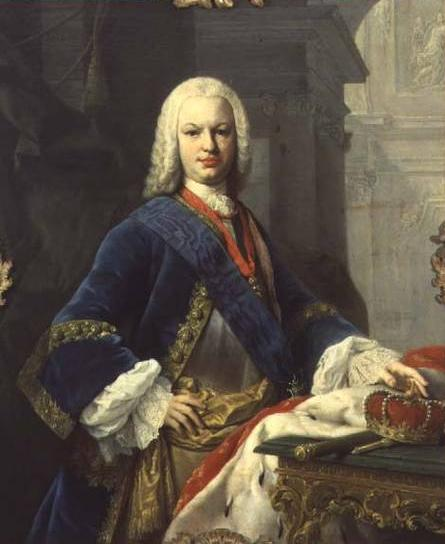 Portrait of Ferdinand VI of Spain (1713-1759)